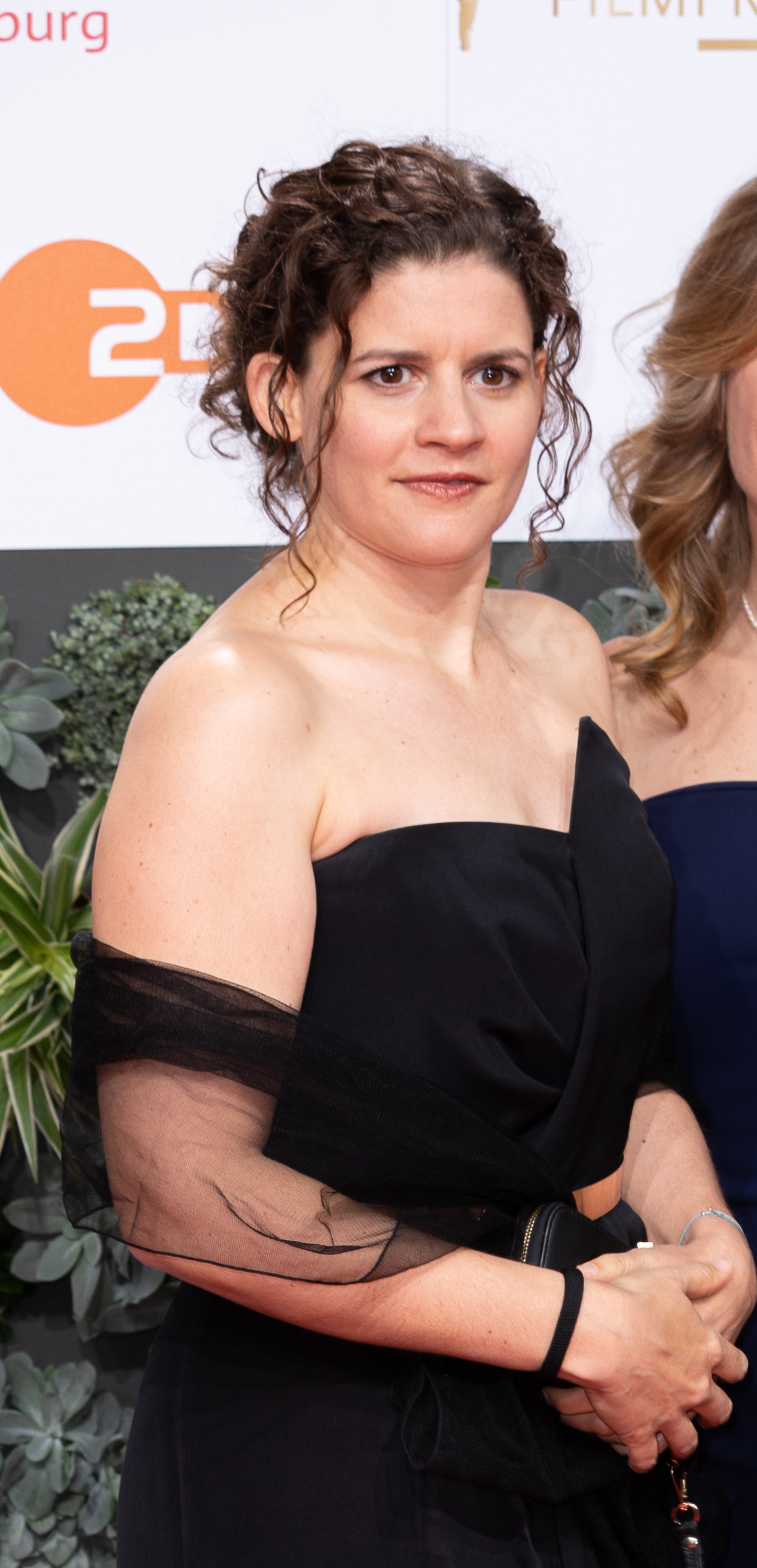 The film team of Rocca verändert die Welt on the red carpet of the German Film Award 2019, Palais am Funkturm, Berlin.